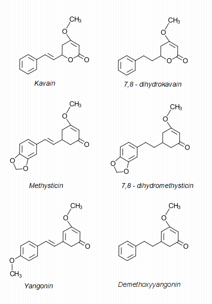 Skeleton structure of the six kavalactones which is accountable for 96 % of the psychotropic effects from the Kava plant.